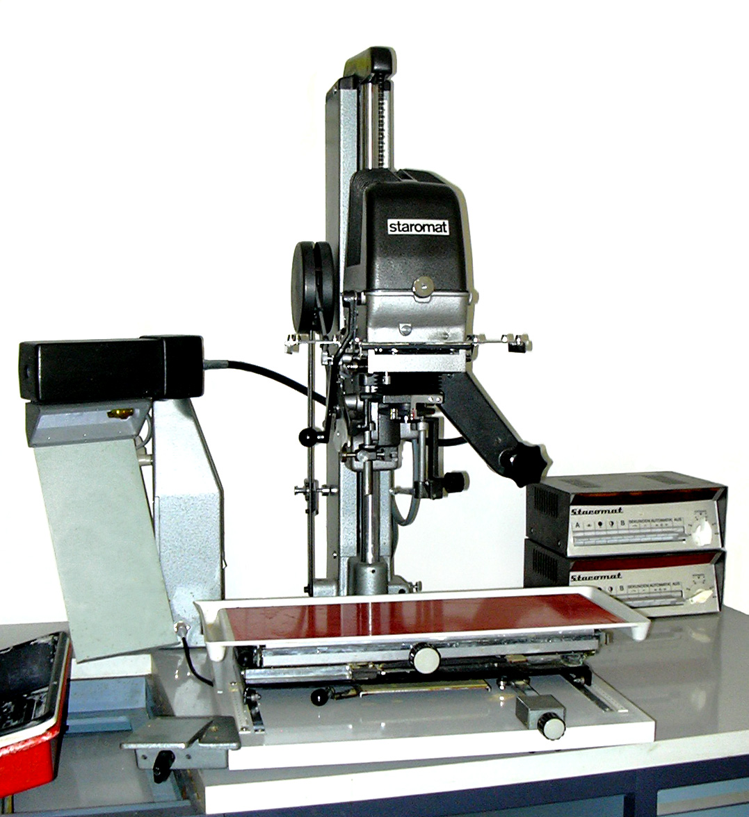 staromat photographic headline setter by H. Berthold AG